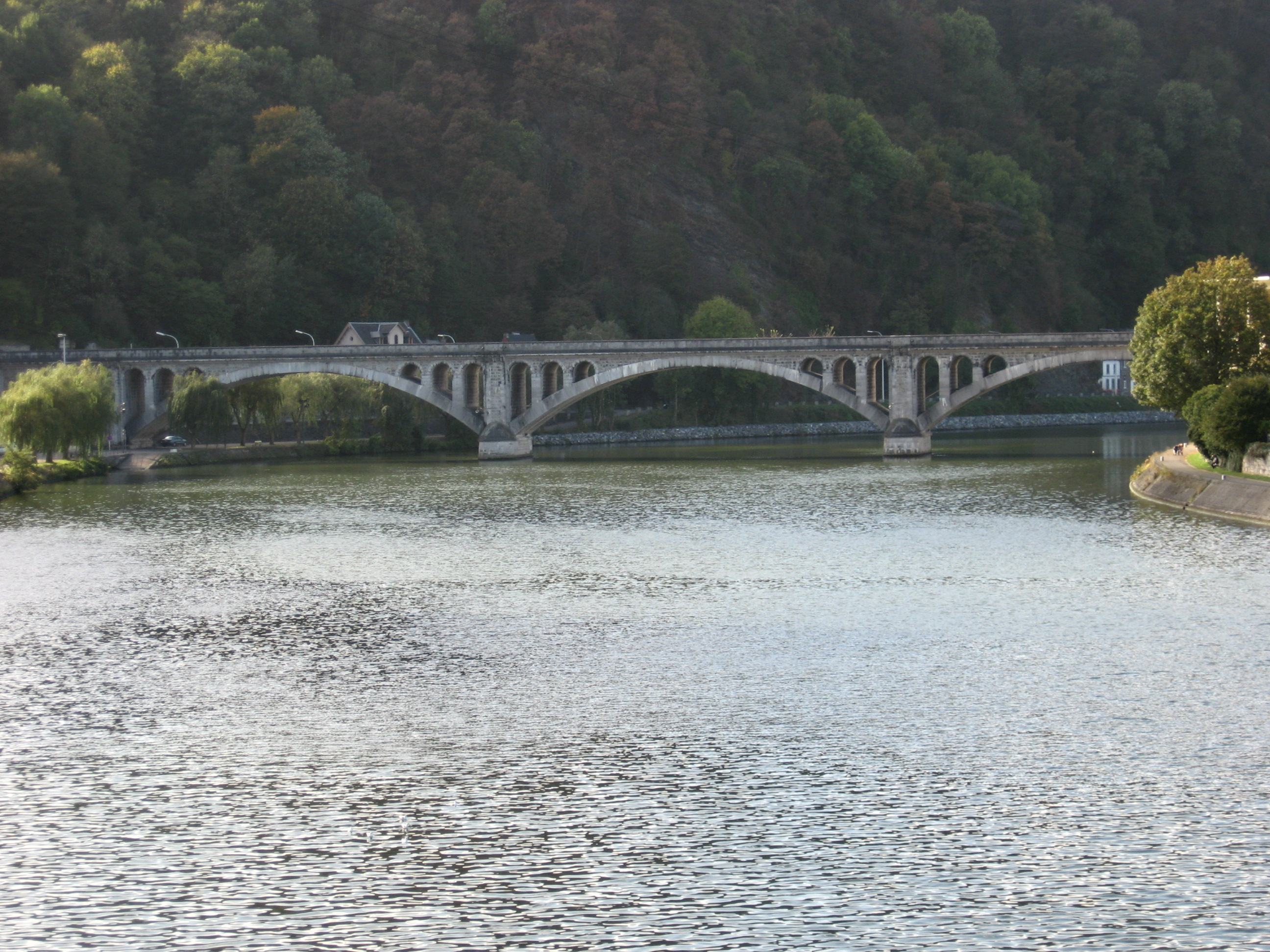 Railway bridge of line 126 over the Meuse river in Huy, Belgium